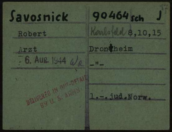 Robert Savosnick's prisoner registry card at Dachau Nazi Concentration Camp “J” (top right corner) and “jud.” (bottom right) identify Savosnick as Jew. Red stamp means he was liberated by the U. S. Army from a Dachau sub-camp (out-detail)